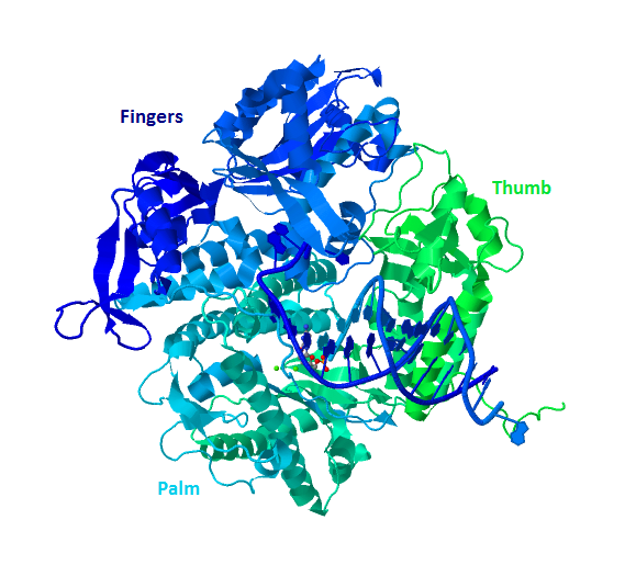 General "Hand" Structure of a Group B Polymerase (Based on PDB entry 3NCI)